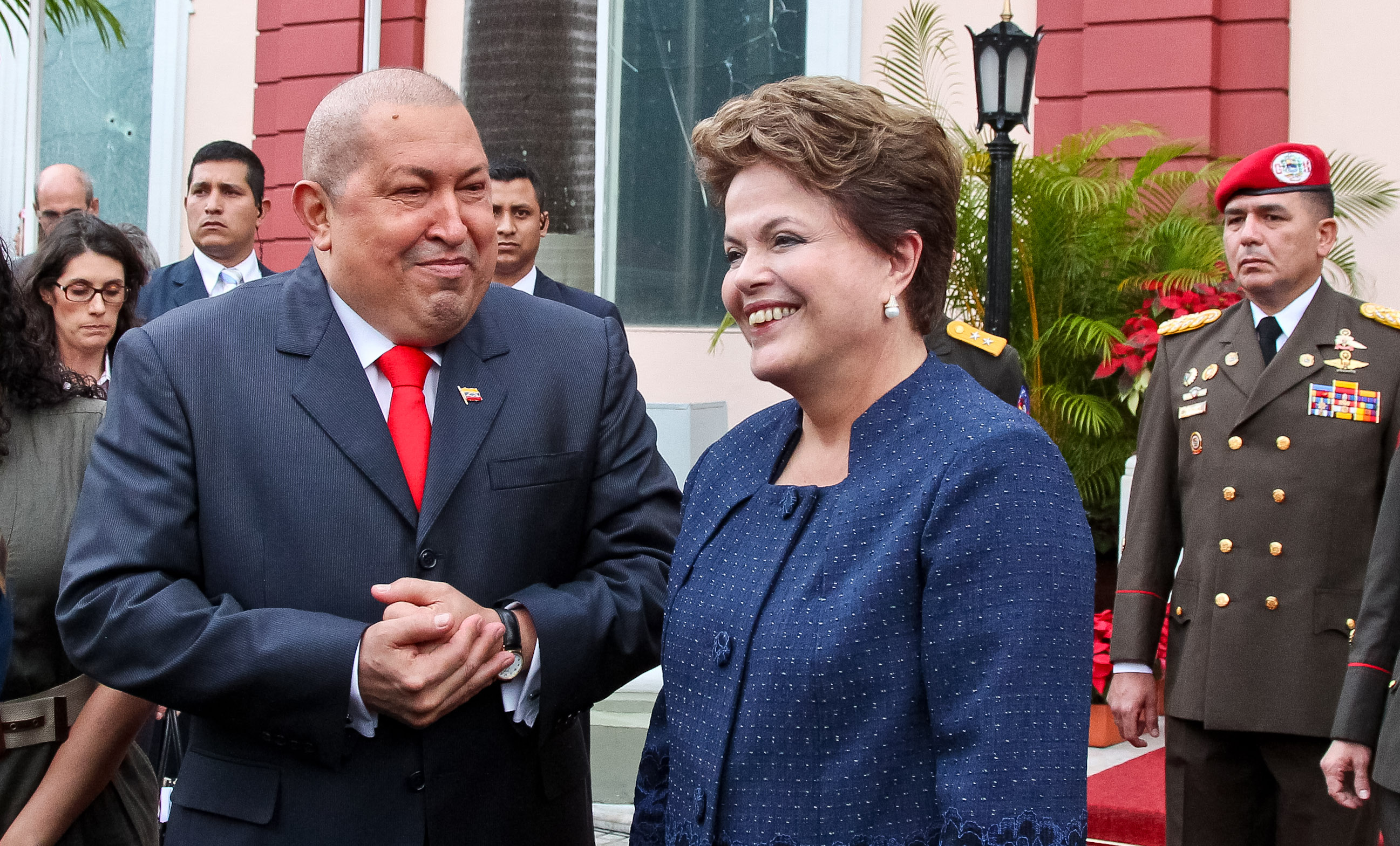 Presidents Dilma Rousseff and Hugo Chávez during the official arrival ceremony at the Miraflores Palace in Caracas, Venezuela